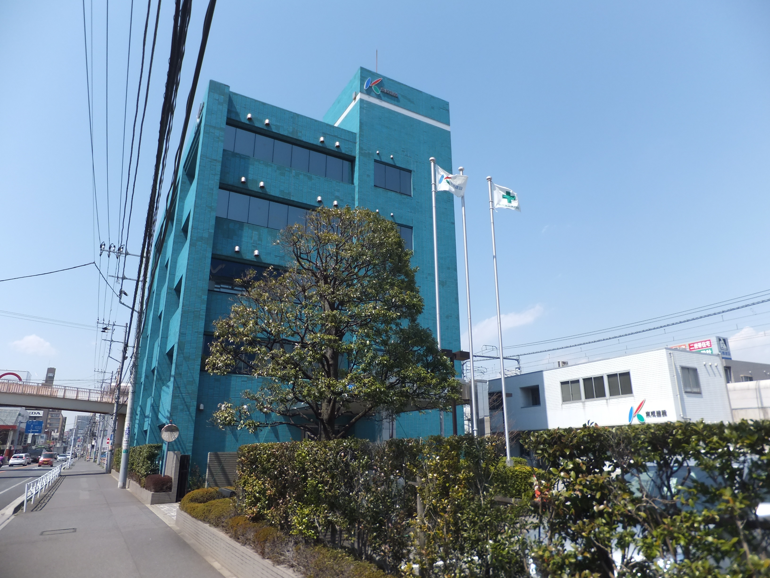 Headquarters of Keisei Construction Inc. in Funabashi City, Chiba Prefecture, Japan.